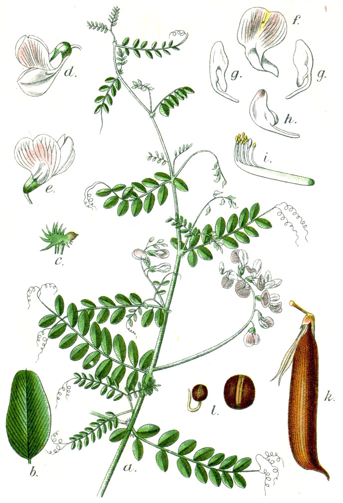 Vicia sylvatica L. Original Caption Waldwicke, Vicia sylvatica